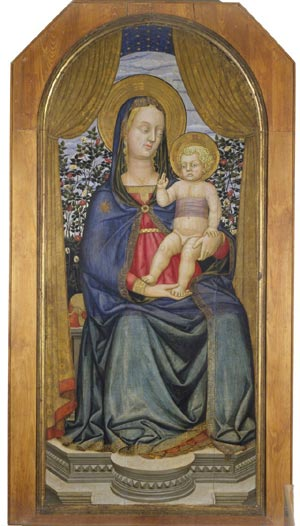 LO SCHEGGIA, Madonna col Bambino in Trono, Il Museo della Basilika, San Giovanni Valdarno.